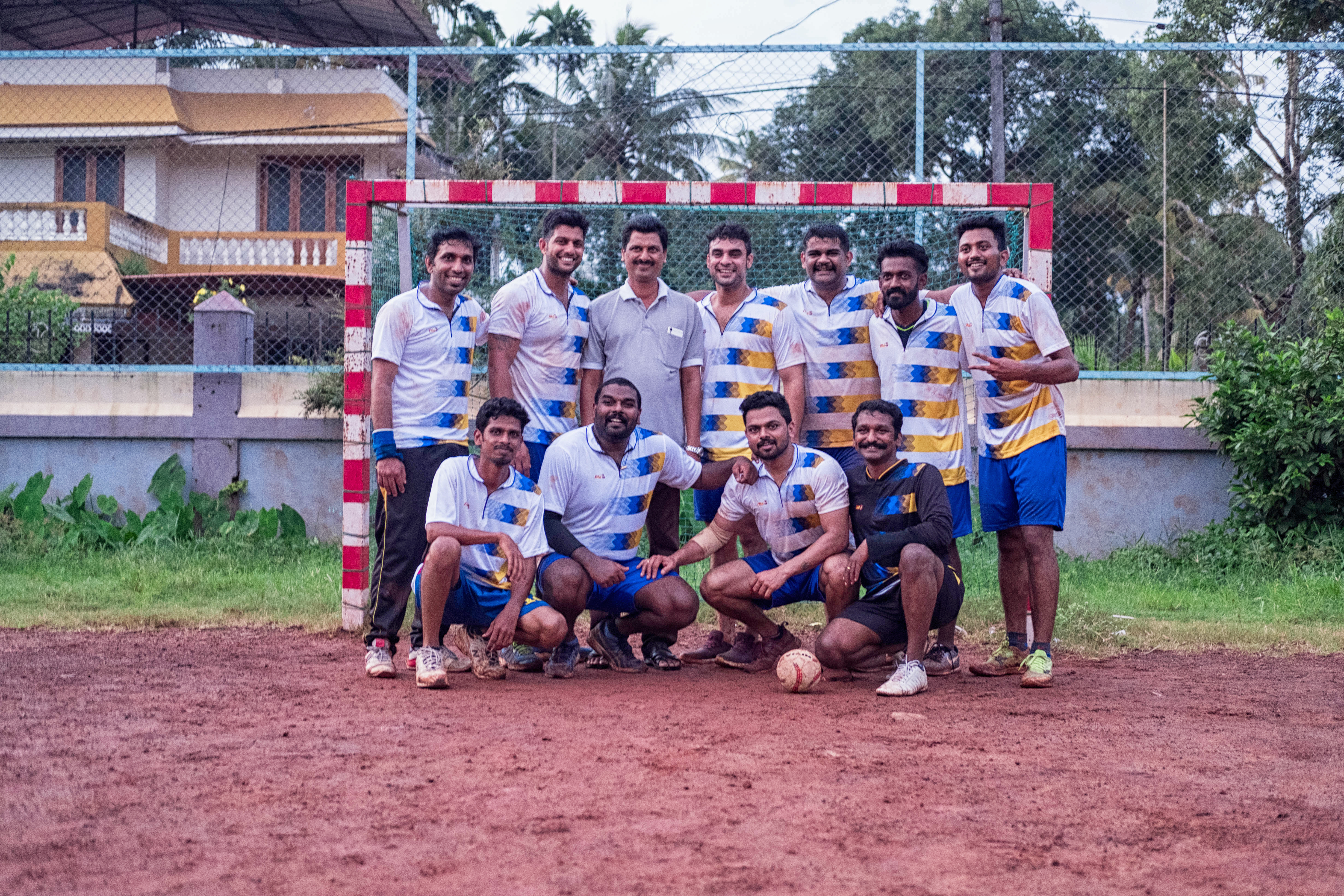 Don Bosco Seniors Handball Team reunited to play against the school team alongside Coach Giby V. Pereppadan